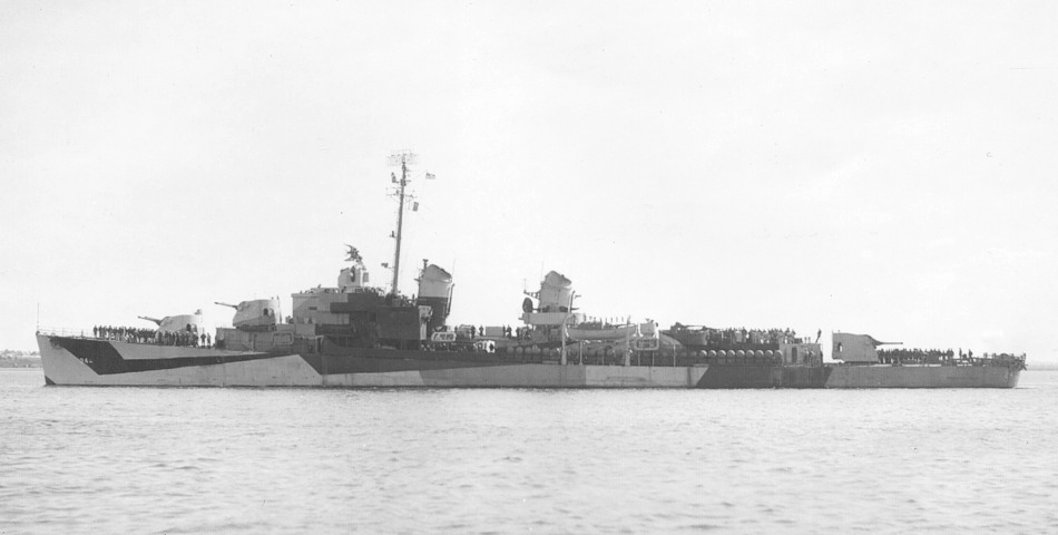 The U.S. Navy destroyer minelayer USS Thomas E. Fraser (DM-24) off Boston, Massachusetts (USA), on 26 September 1944.